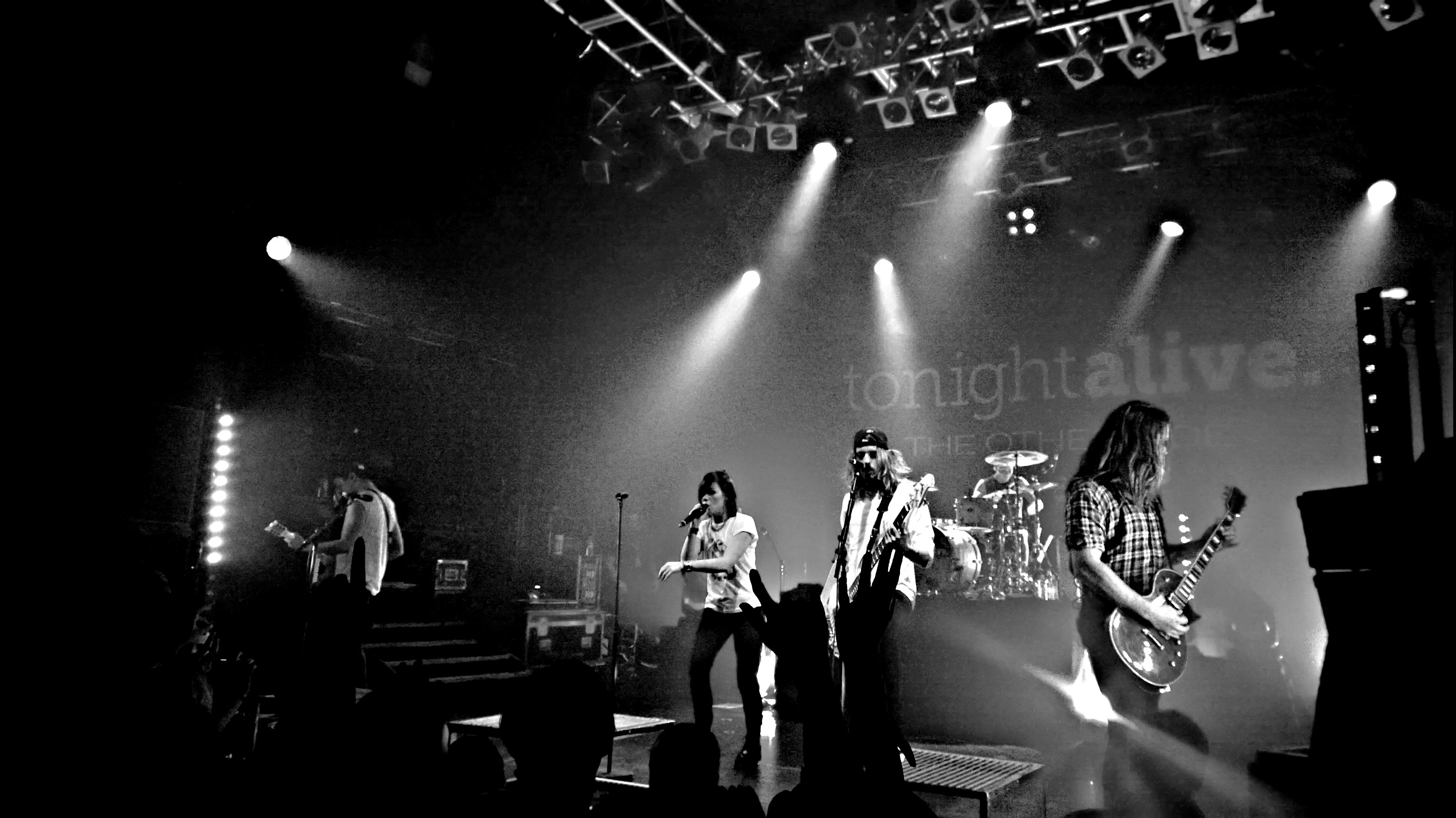 Tonight Alive, Koko, London